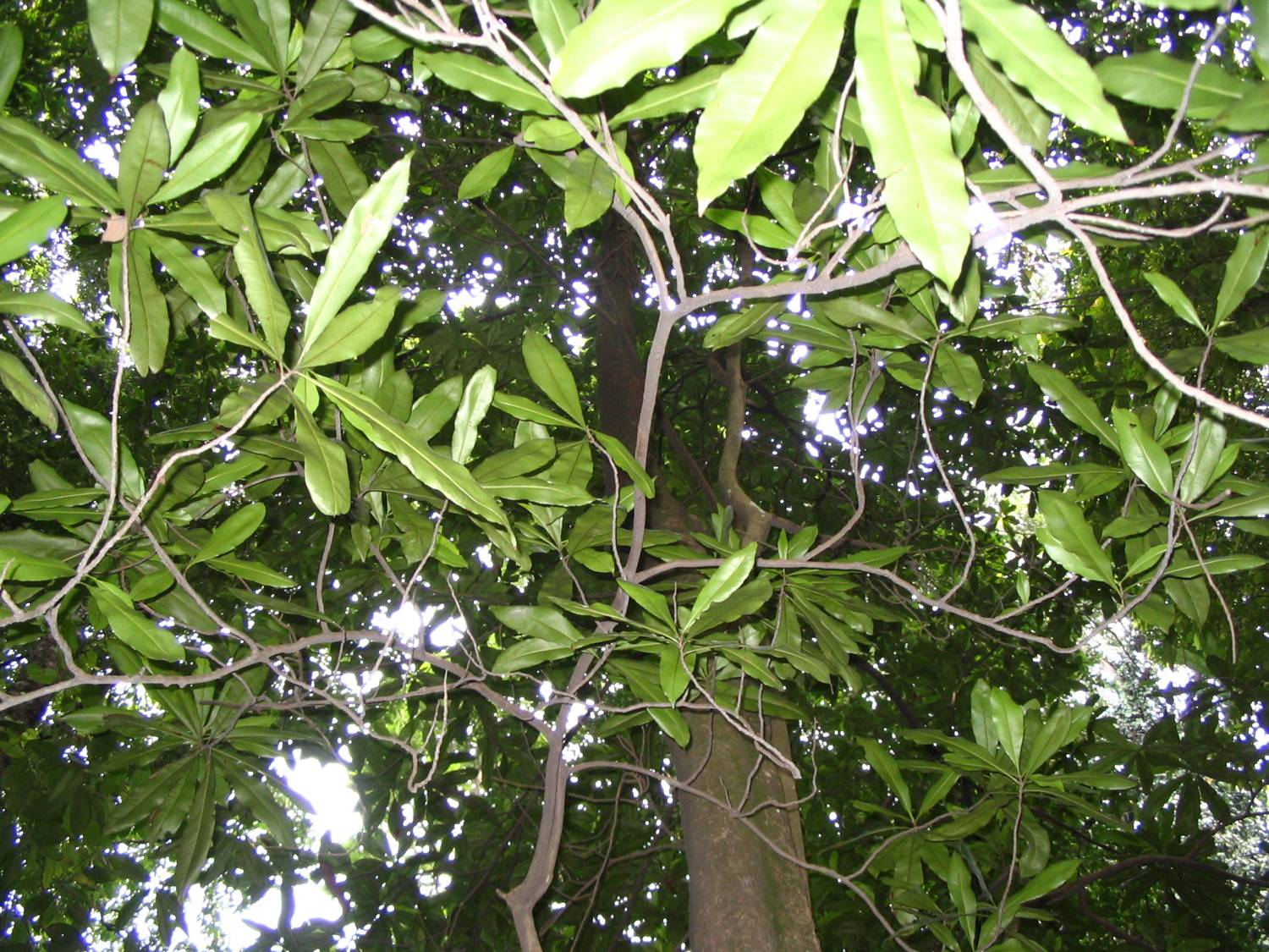 Ixonanthes isocandra